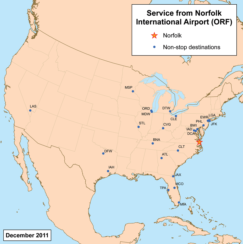 This is a route map for Norfolk International Airport as of March 2007. Map is an Azimuthal equidistant projection centered on the airport so straight lines from Norfolk are along great circle routes. Source.